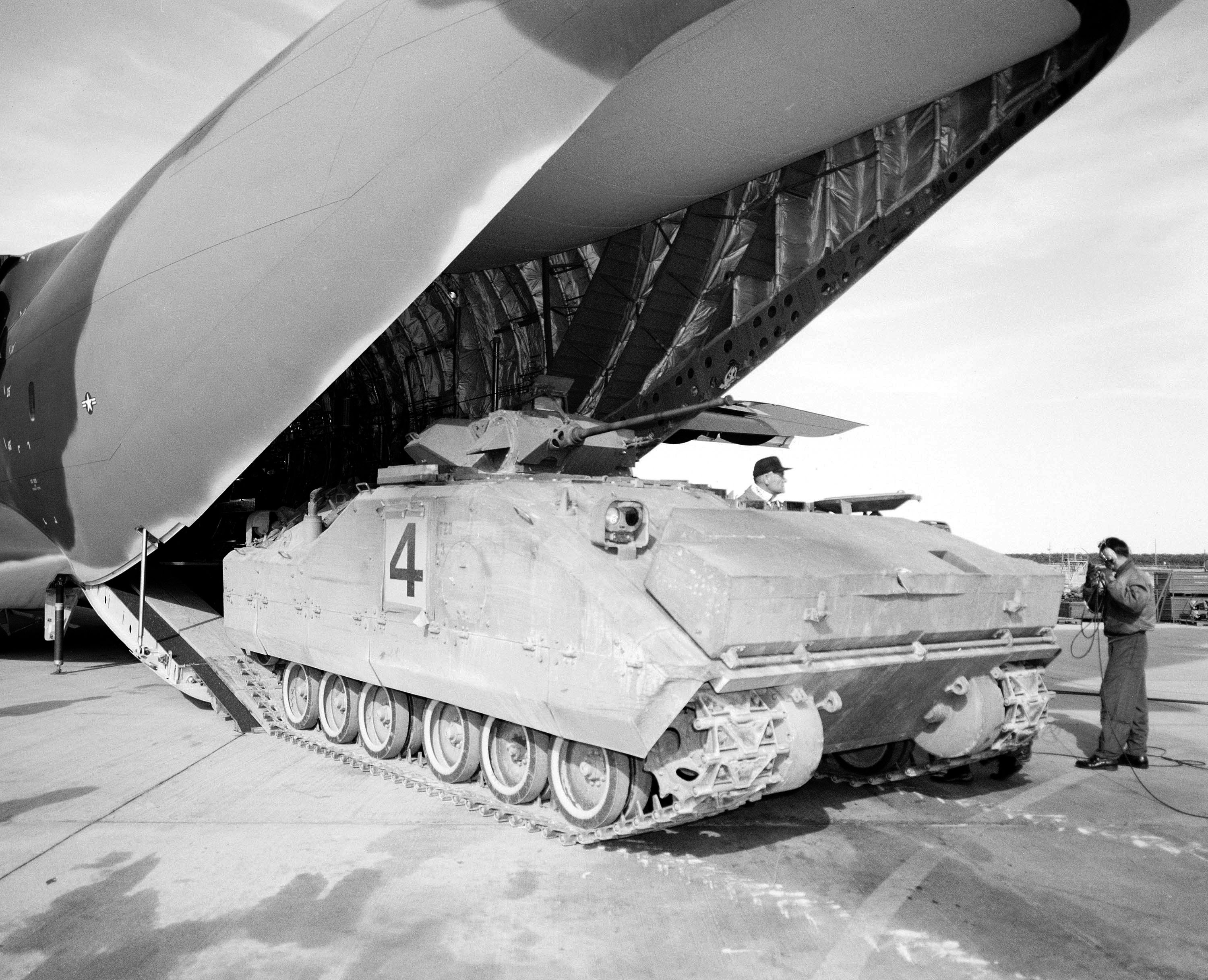 An XM723 mechanized infantry vehicle (M2 Bradley prototype) is offloaded from a YC-15 aircraft during a heavy loading test.